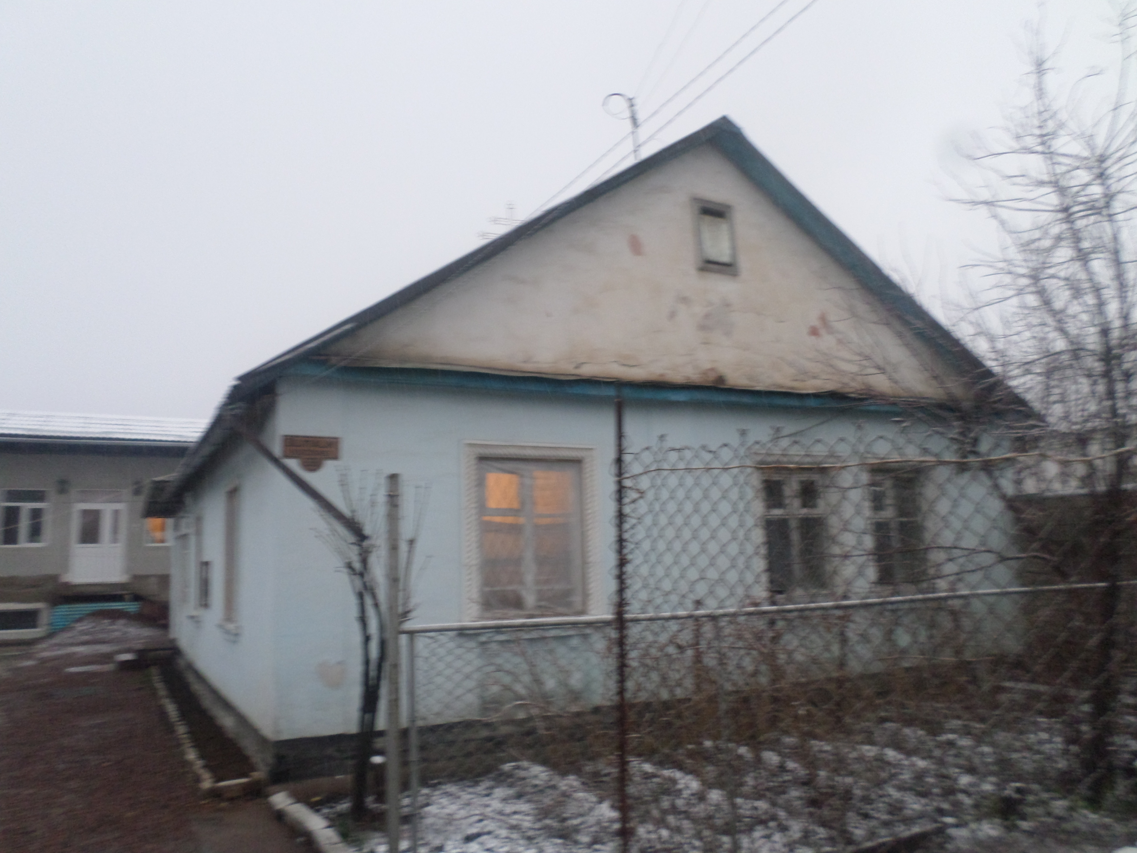 Church in Angren